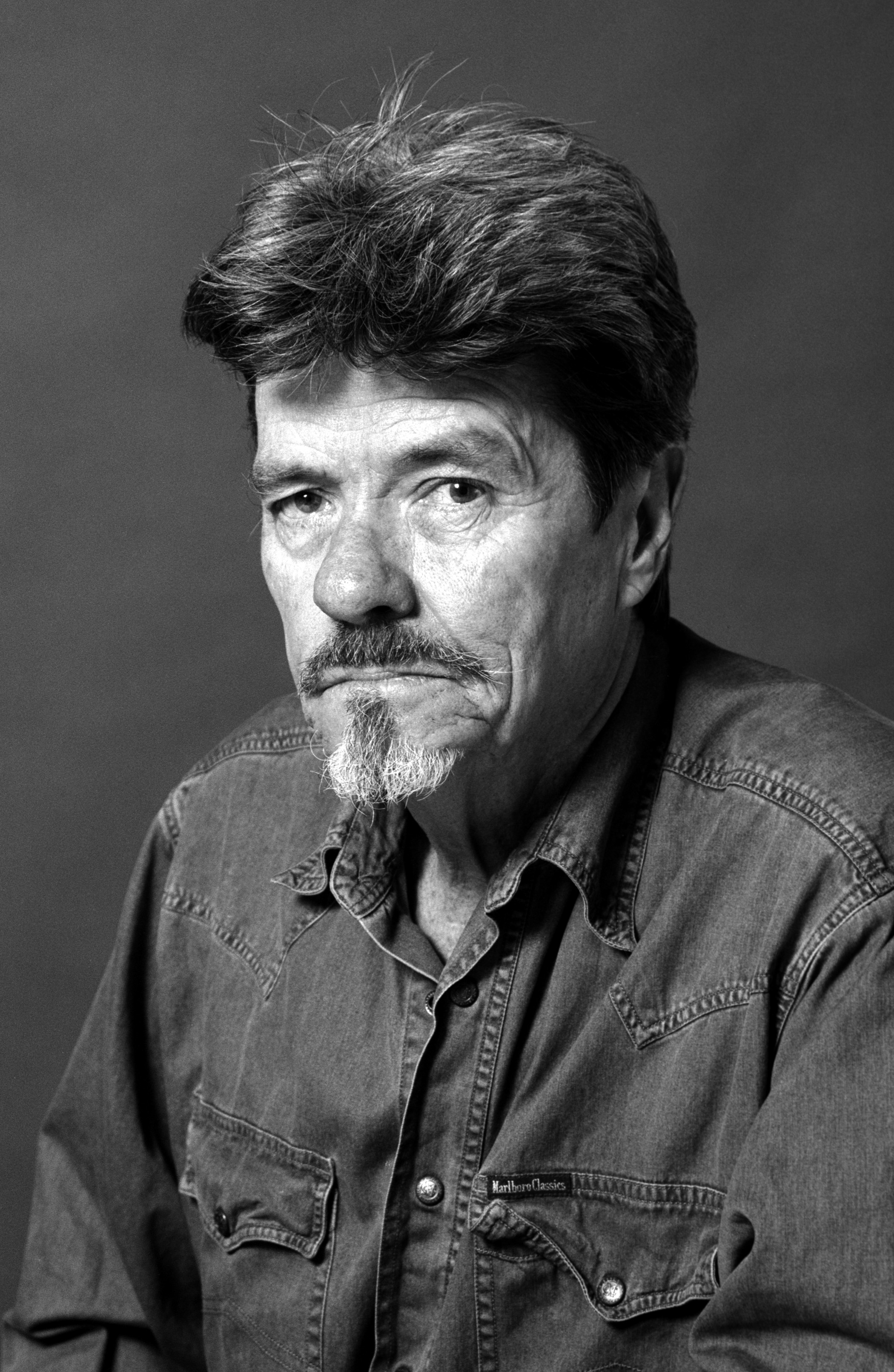 Photograph of American composer James Tenney